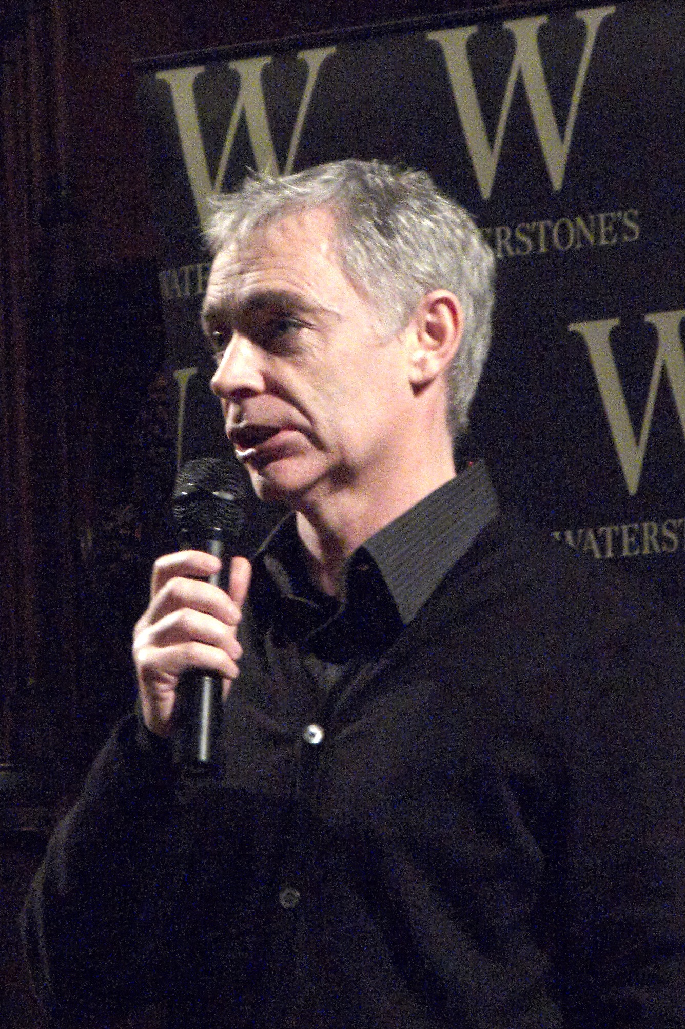 Eoin Colfer, at Great St Marys Cambridge